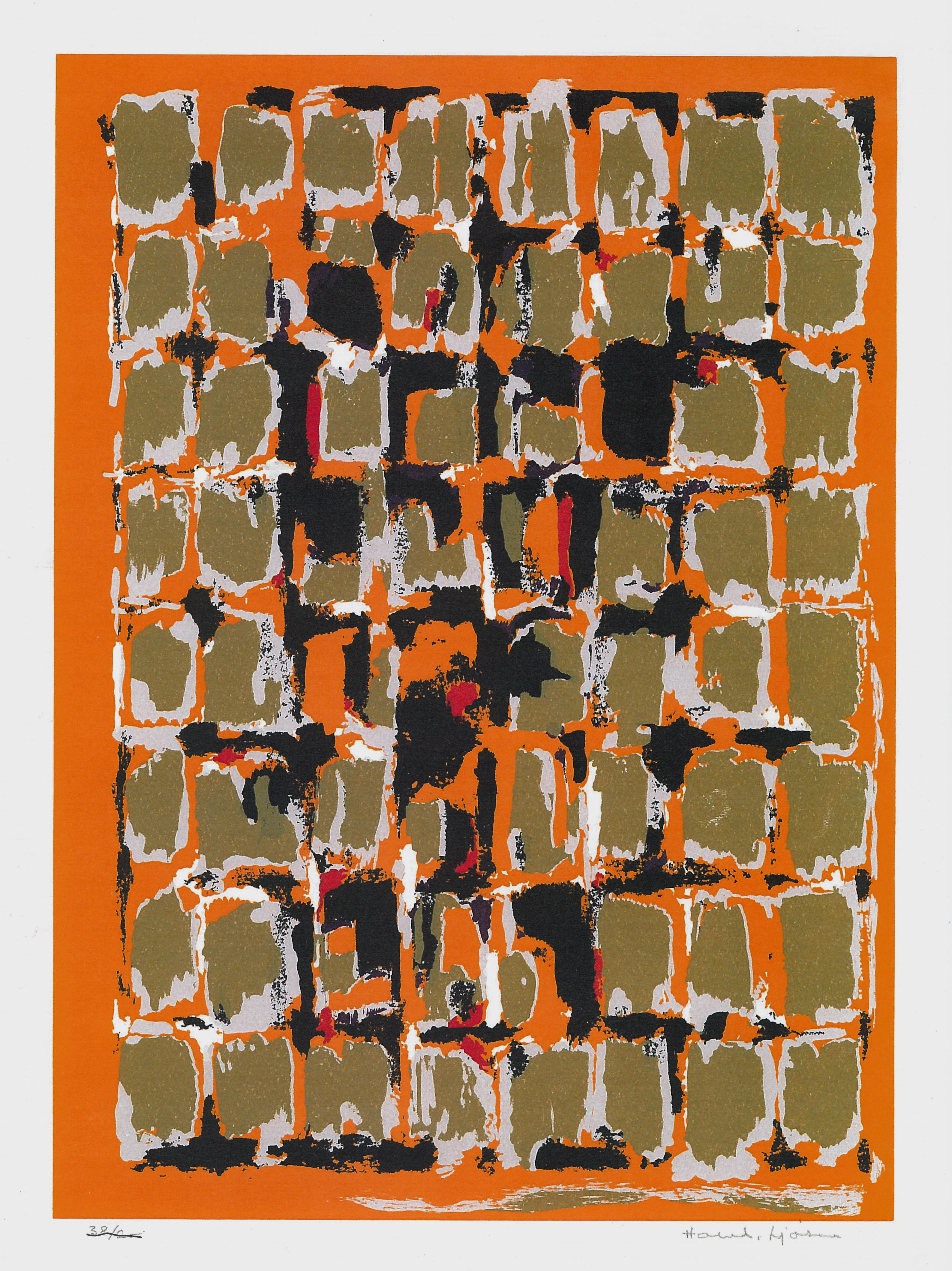 serigraphy by the Norwegian artist Halvdan Ljøsne